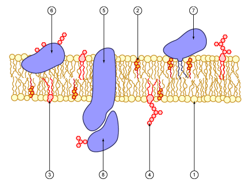 Schematic representation of a cell membrane